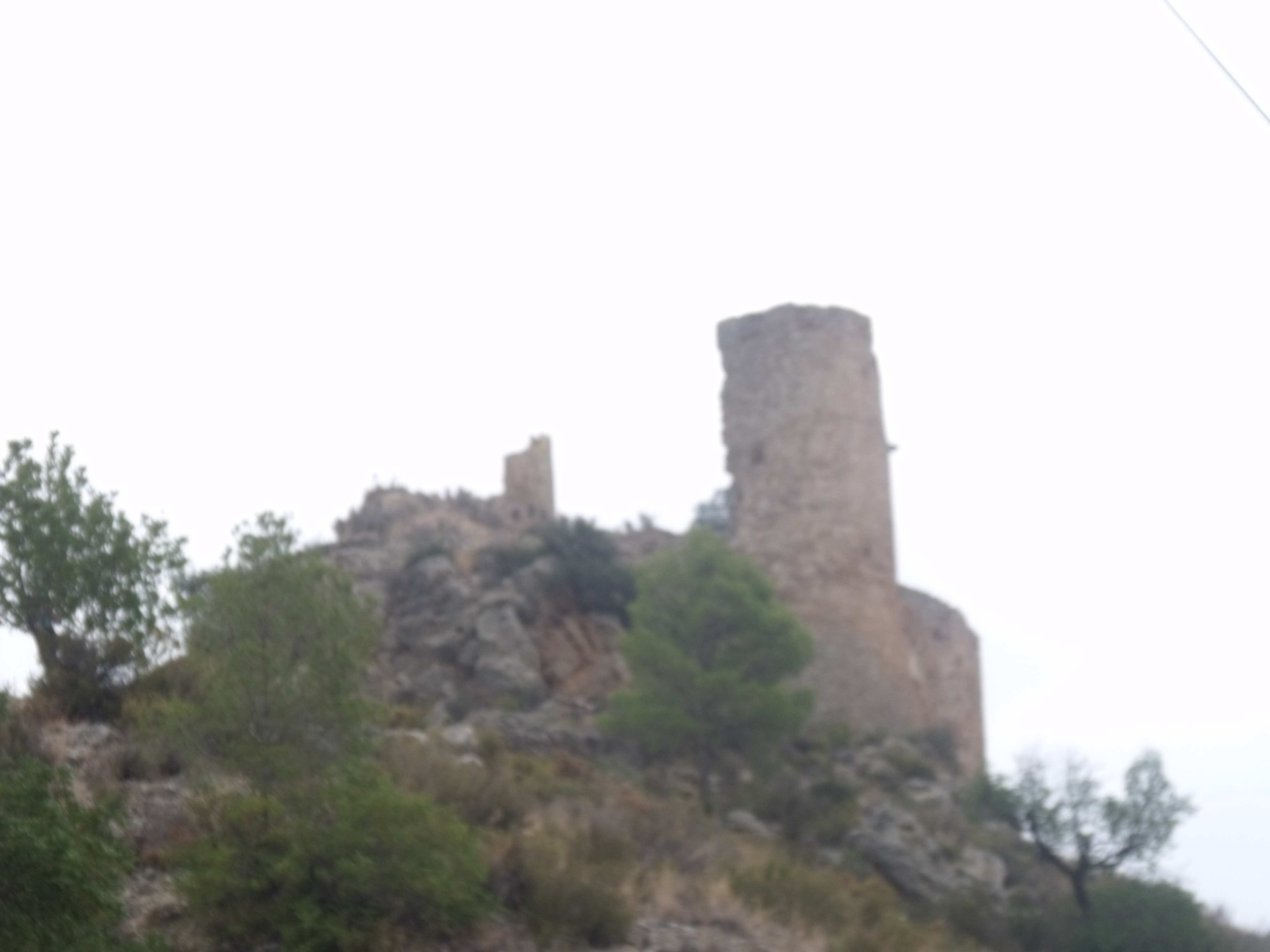 Gestalgar castle.